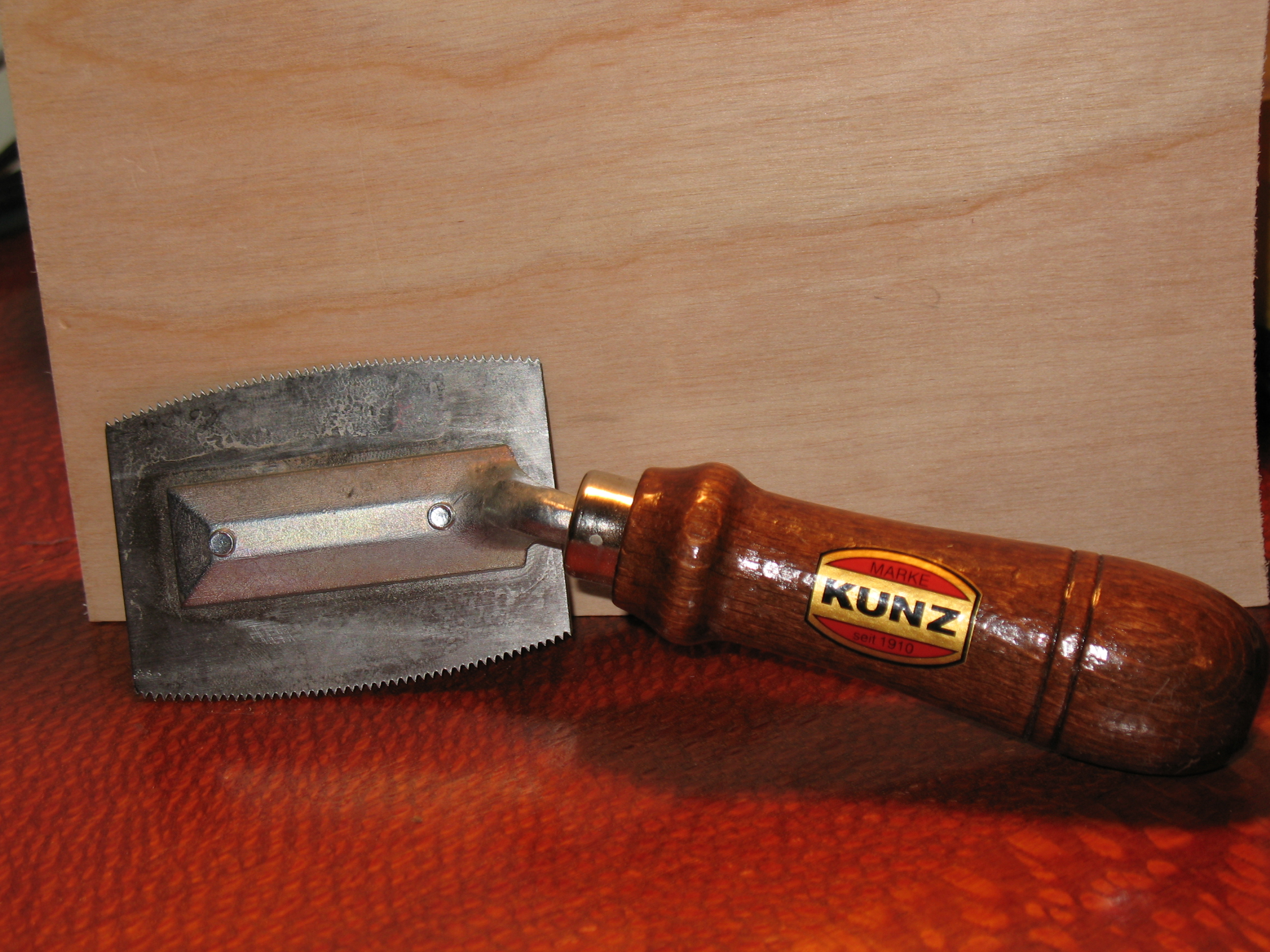 Veneer saw